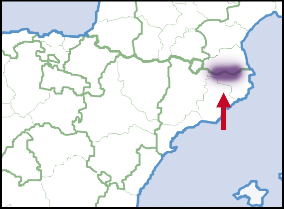 Arianta xatartii (Farines, 1834). Distributional range in Europe, scientific state of knowledge of 2012. Source description in English. Light colour indicated rare occurrences or regions where the species could eventually be expected to occur. Dark colour indicated relatively reliable occurrences, as well as regions where the species was expected to occur, and where the species was not known to be extremely rare. Dark colour indications were not necessarily based on published records. Species summary in AnimalBase